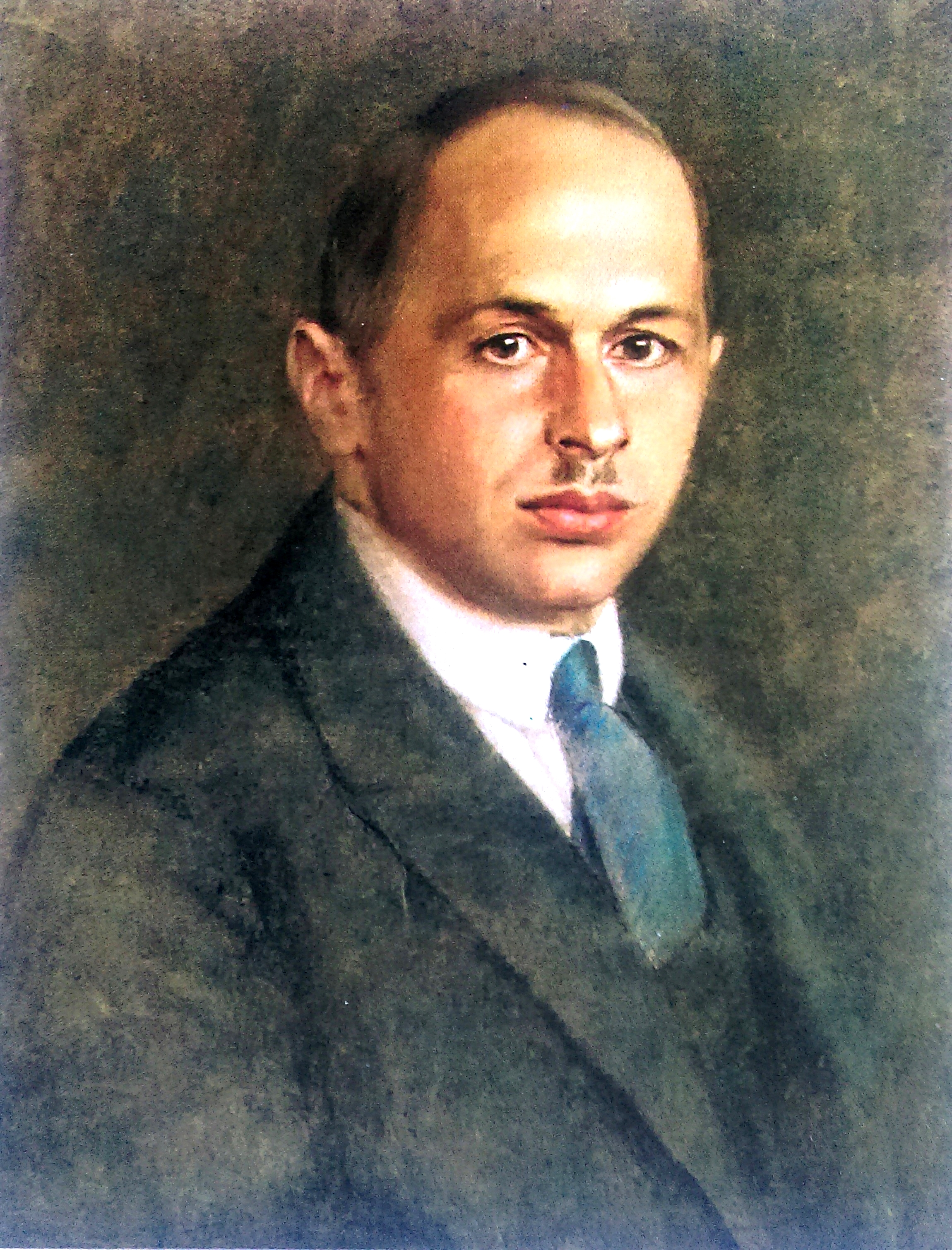 Jacob Kruger. Portrait of the philosopher S. Wolfson, 1920s. Pastel on colored paper. National Art Museum of Belarus